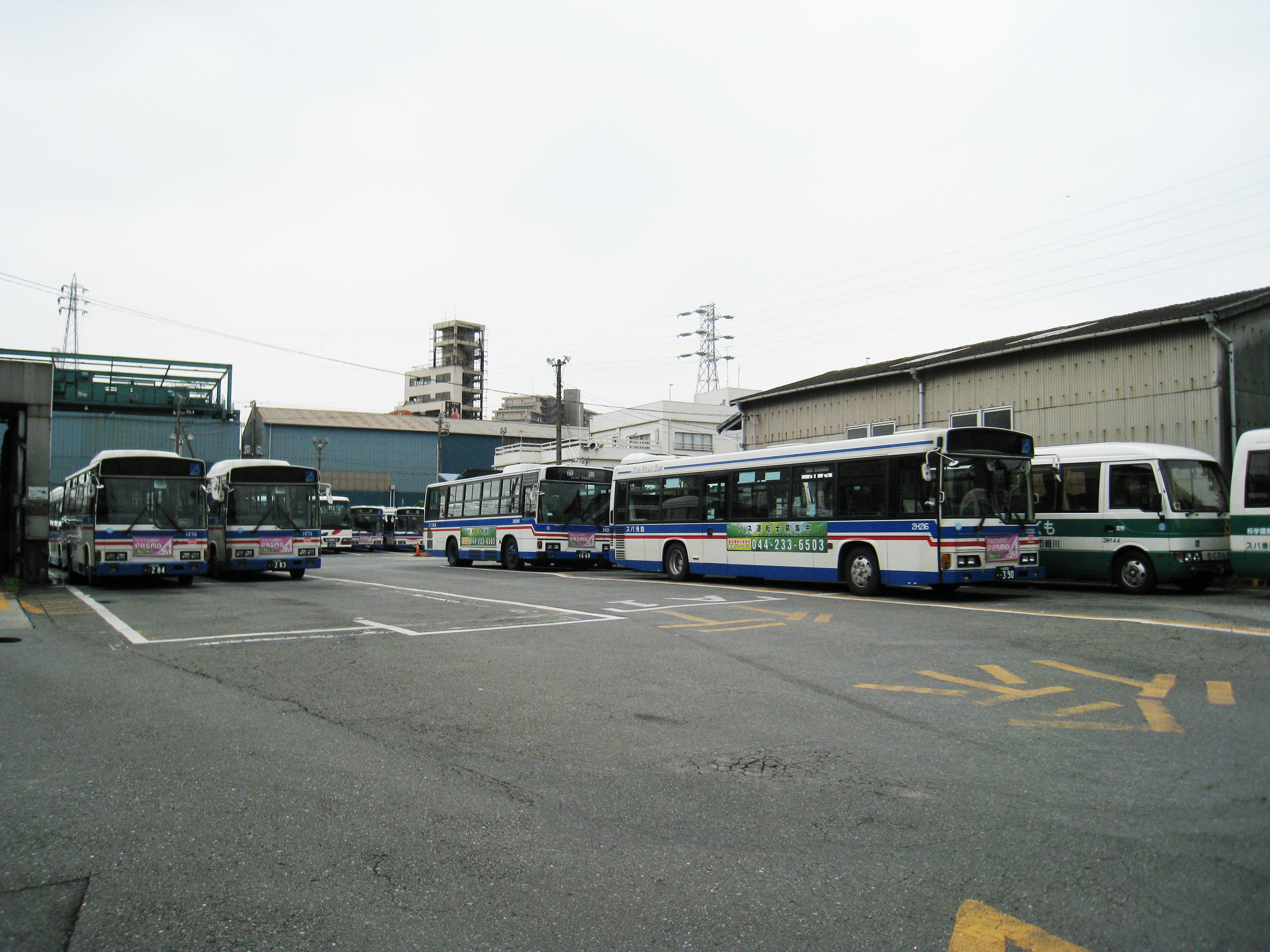 Kawasaki-Tsurumi Rinko Bus company. Hamakawasaki branch office.